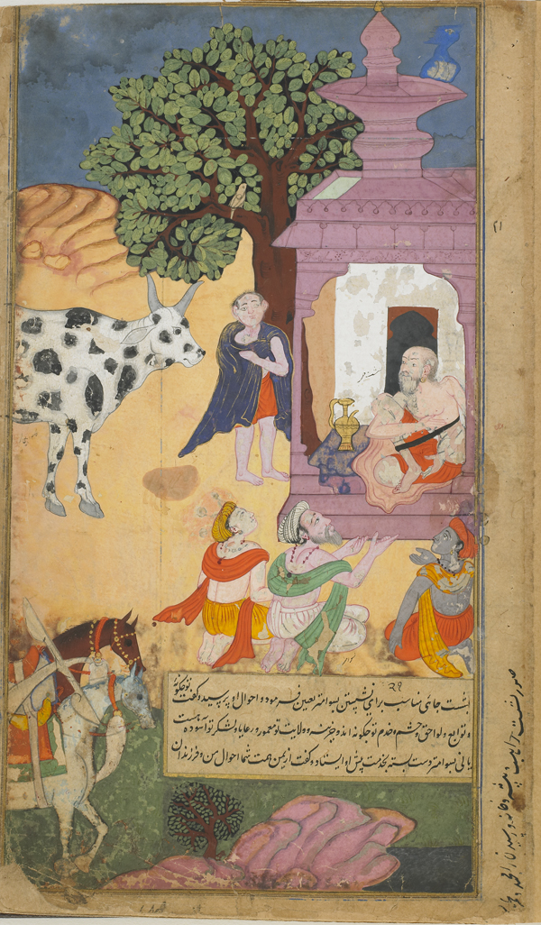 Folio from the Ramayana of Valmiki (The Freer Ramayana), Vol. 1, folio 52; recto: Vasistha summons Sabala, the cow of abundance, to provide for a feast; verso: text 1597-1605 Fazi Mughal dynasty Opaque watercolor, ink, and gold on paper H: 26.7 W: 14.0 cm Northern India Gift of Charles Lang Freer F1907.271.52